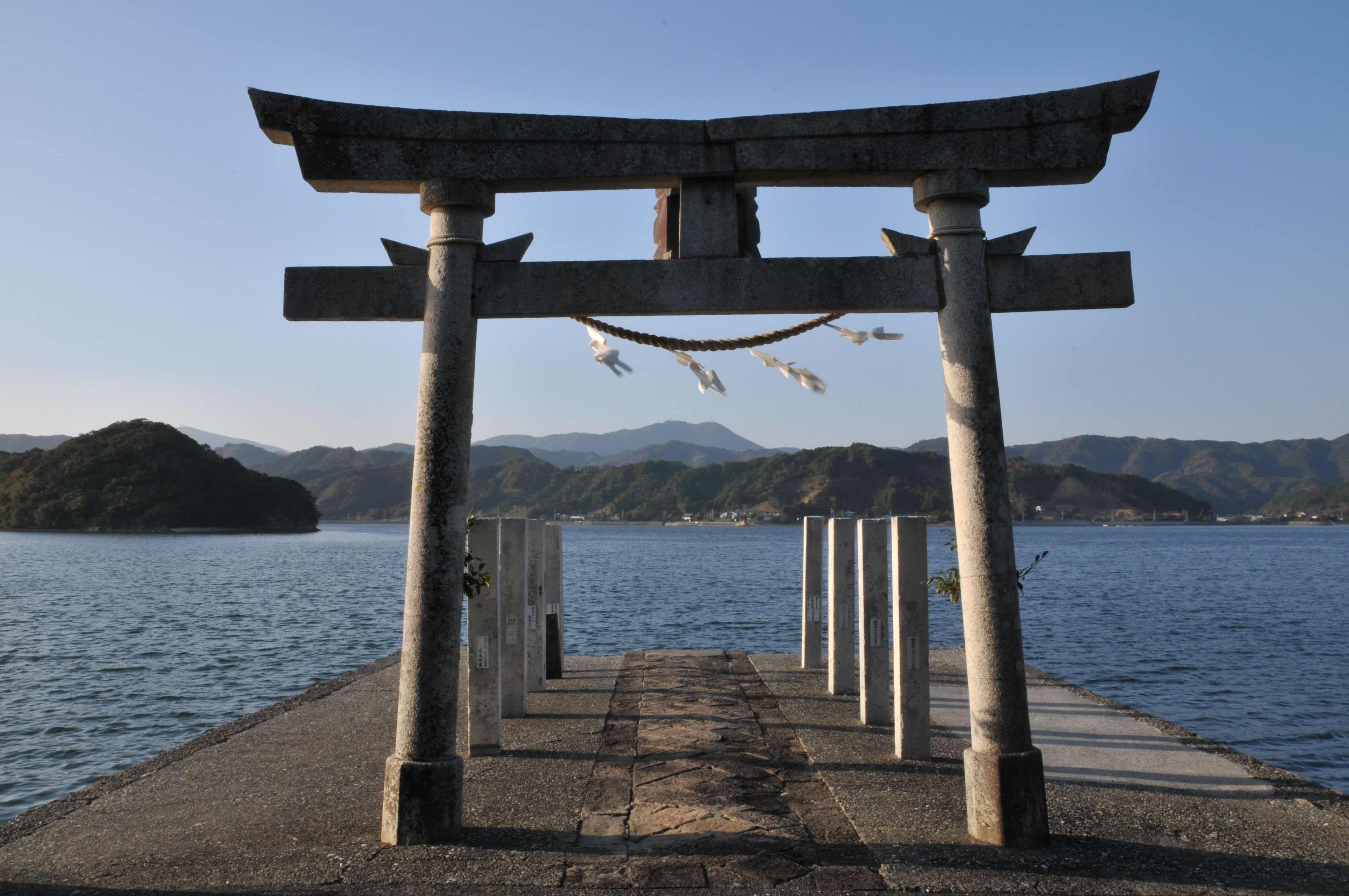 First torii and approach from sea, Otonashi-jinja